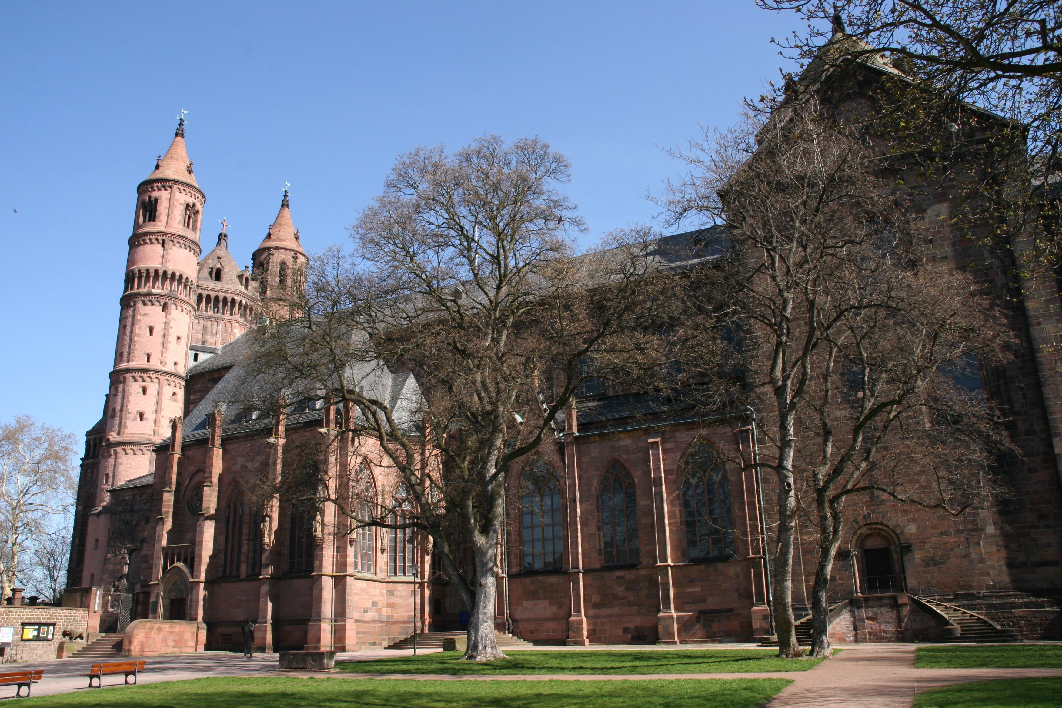 Speyer: cathedral of Worms